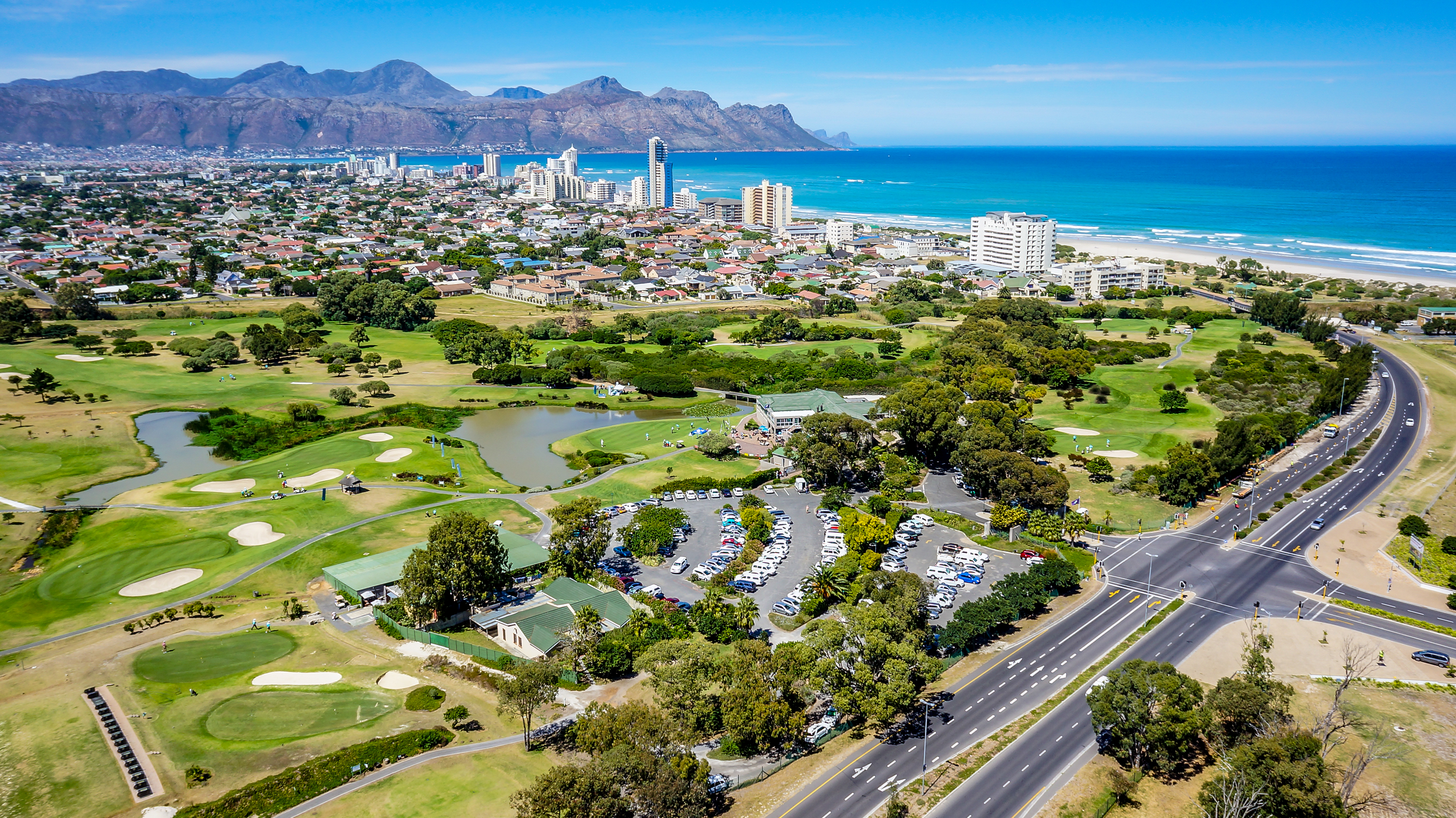 The beach in Strand is warm, sheltered and lie on the edge of a promenade that includes a few coffee shops, cafes and restaurants. There is also a large entertainment area with putt-putt, a water slide, a heated Olympic-size swimming pool and tidal pool, which should keep most of the family amused. Strand also boasts a lovely golf club.